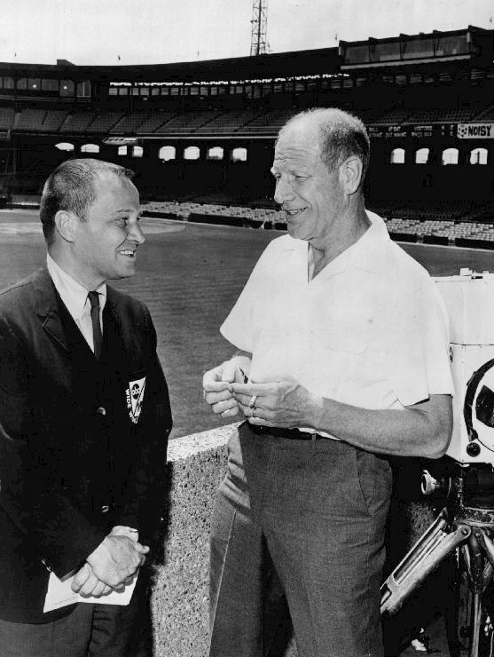 Photo of sportscaster Jim McKay and baseball owner and executive Bill Veeck from the television program Wide World of Sports.